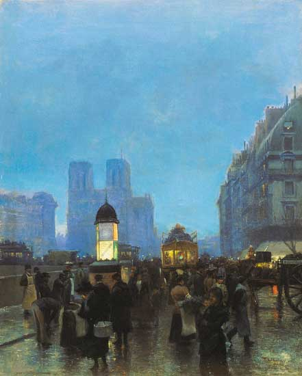 Twilight. Oil on canvas, 81x65 cm. Paris, 1897.